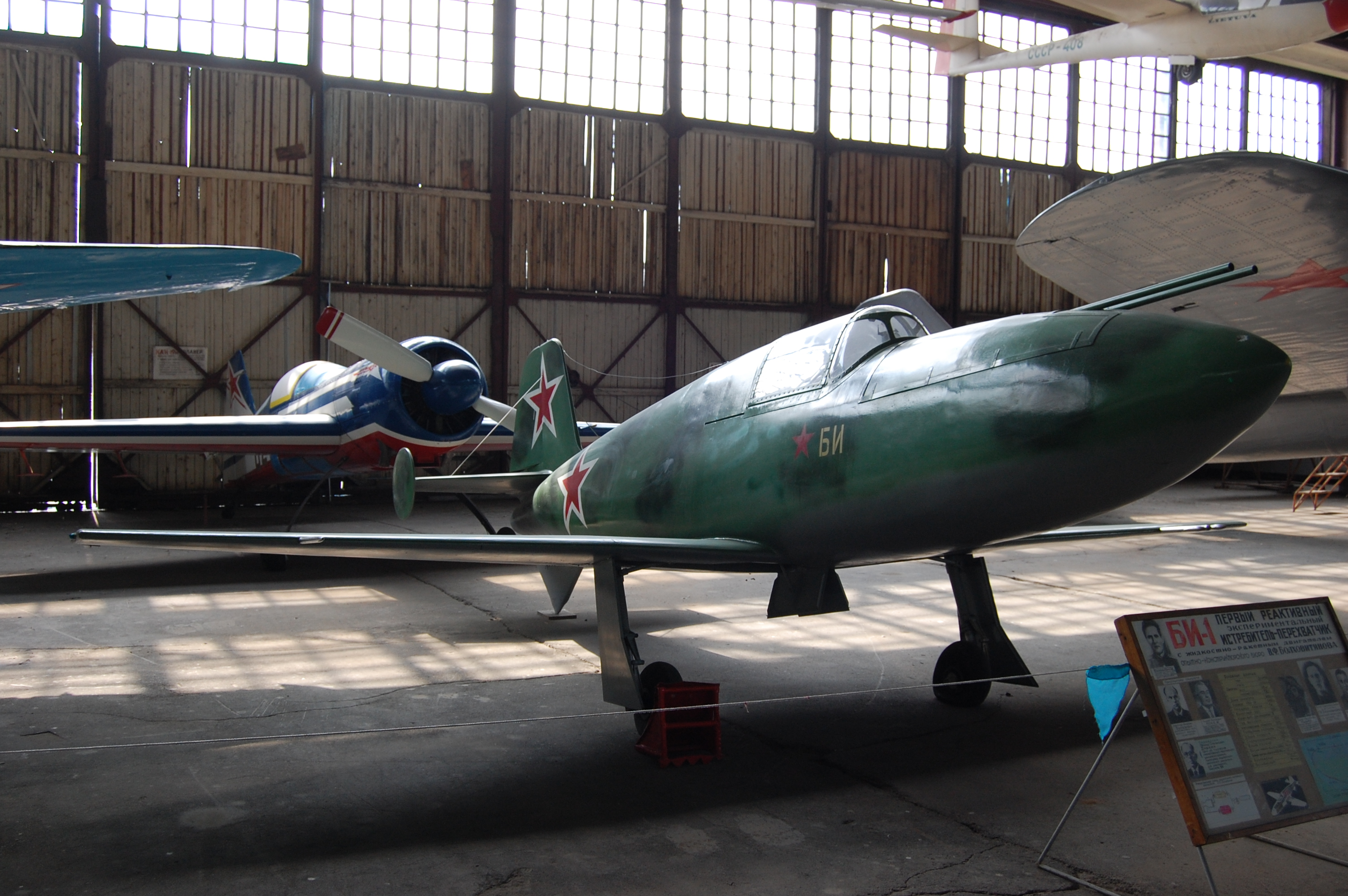 Bereznyak-Isayev BI-1 at Central Air Force Museum Monino in Russia.